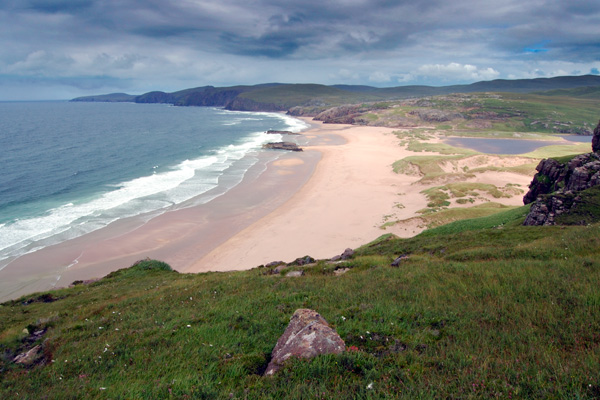 Sandwood Bay facing north. Taken Aug 2006. Author - Manico.